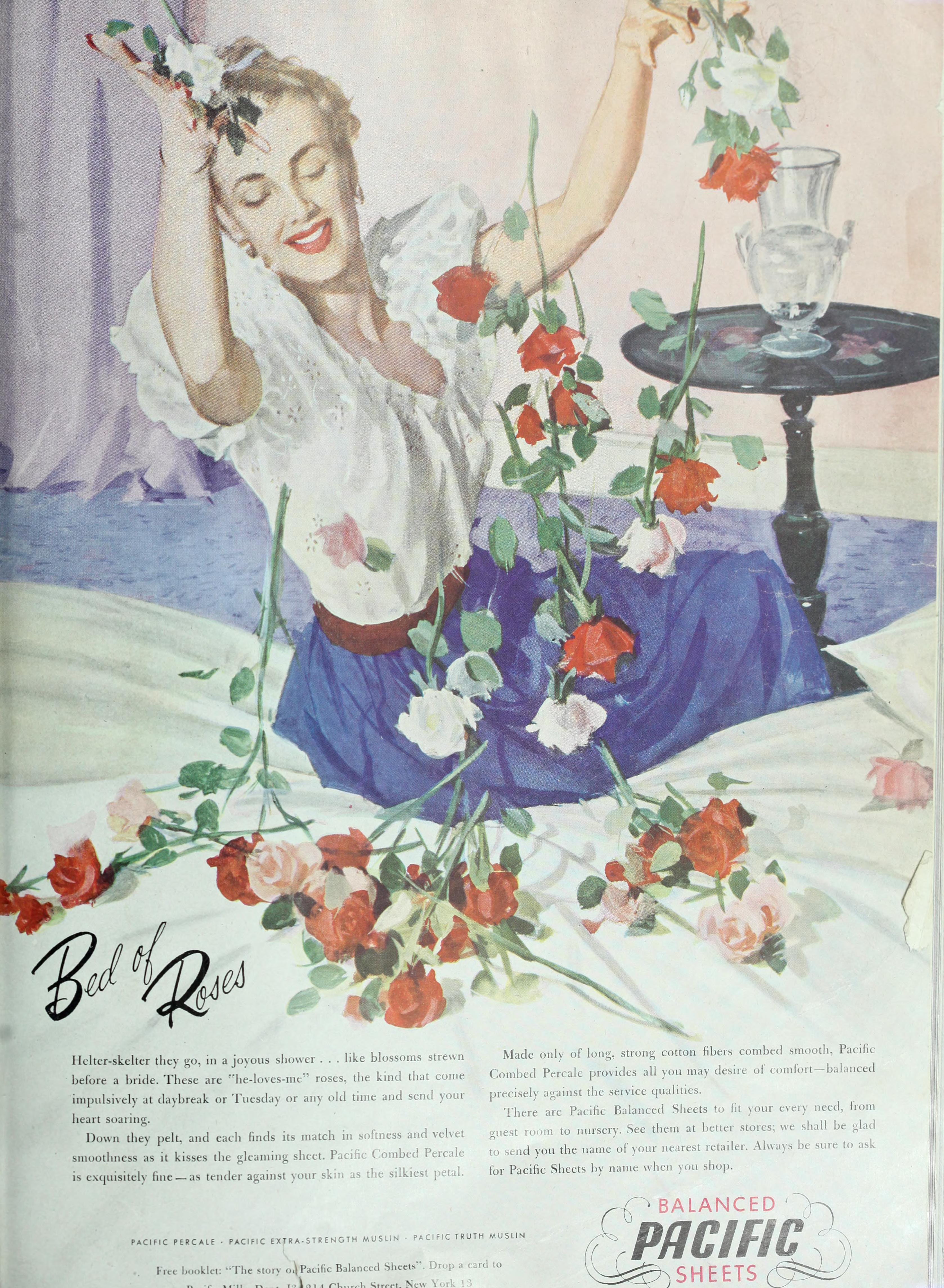 Bed of Roses - Balanced Pacific Sheets 1948 Title: The Ladies' home journal Year: 1889 (1880s) Authors: Wyeth, N. C. (Newell Convers), 1882-1945 Subjects: Women's periodicals Janice Bluestein Longone Culinary Archive Publisher: Philadelphia : (s.n.) Text Appearing Before Image: Secure on both sides withelastic bands; pretty bows. Side part; brush hair for-ward, ends into loose curls. Printed in l* Text Appearing After Image: Helter-skelter they go, in a joyous shower . . . like blossoms strewnbefore a bride. These are he-loves-me roses, the kind that comeimpulsively at daybreak or Tuesday or any old time and send yourheart soaring. Down they pelt, and each finds its match in softness and velvetsmoothness as it kisses the gleaming sheet. Pacific Combed Percaleis exquisitely line— as tender against your skin as the sdkiest petal. Made only of long, strong cotton fibers combed smooth, PacificCombed Percale provides all you may desire of comfort—balancedprecisely against the service qualities. There are Pacific Balanced Sheets to fit your every need, fromguest room to nursery. See them at better stores; we shall be gladto send you the name of your nearest retailer. Always he sure to askfor Pacific Sheets by name when you shop. PACIFIC PERCALE • PA CIFIC EXTRA.STRENGTH MUSLIN • PACIFIC TRUTH MUSLIN Fret booklet: The s„„v ofrPacific Balanced Sheets. ■ p i card to ■ ■ «.ii i, . i .In l rU,,rrl